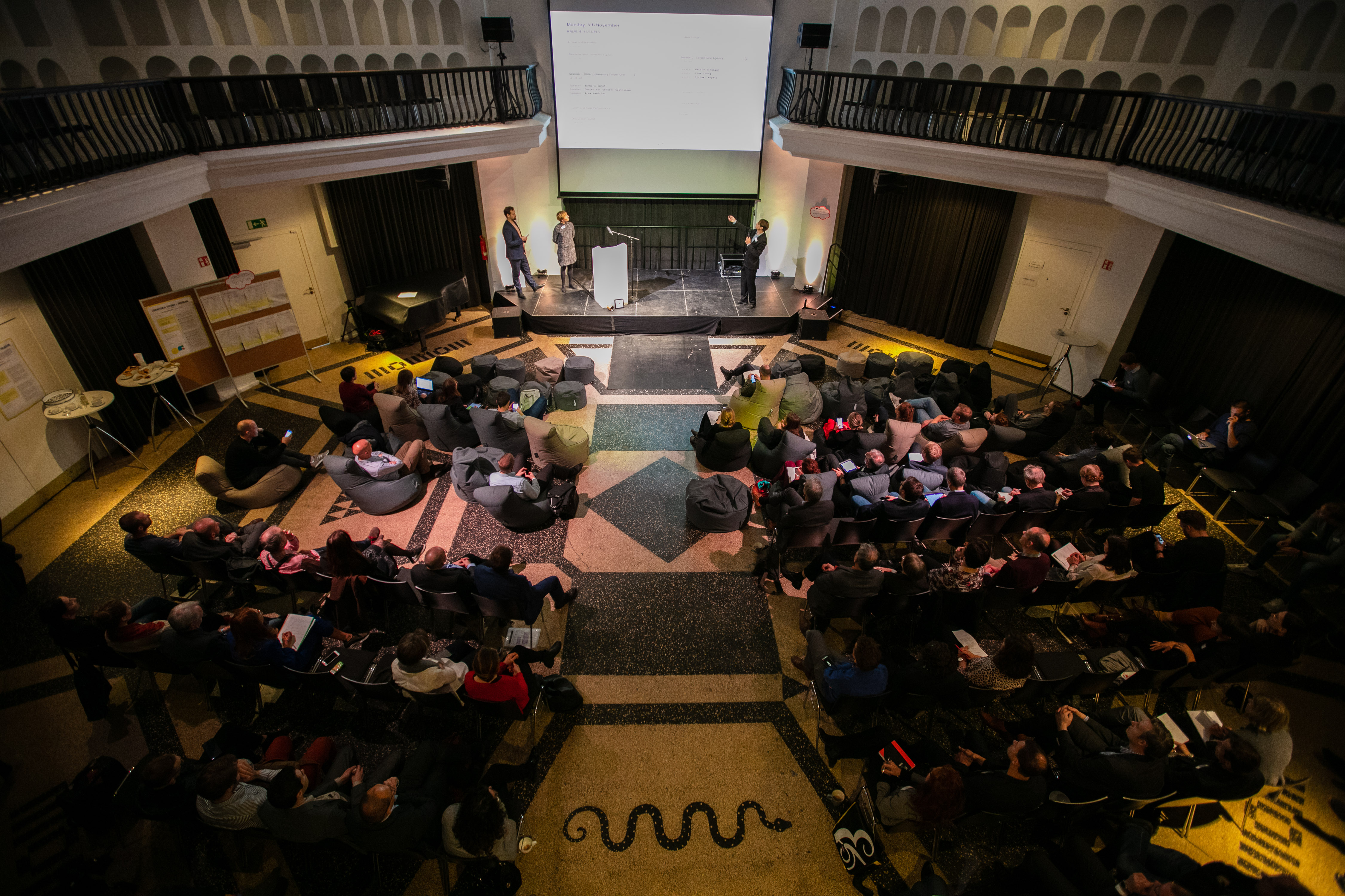 The Conjectural Futures Conference took place on November 5 and 6, 2018 in Berlin, Germany. It consisted of 2 days of foresight talks and workshops for strategists, foresighters, innovators and designers. The conference was organised by the Corporate Foresight Teams of Evonik and Deutsche Bahn. For